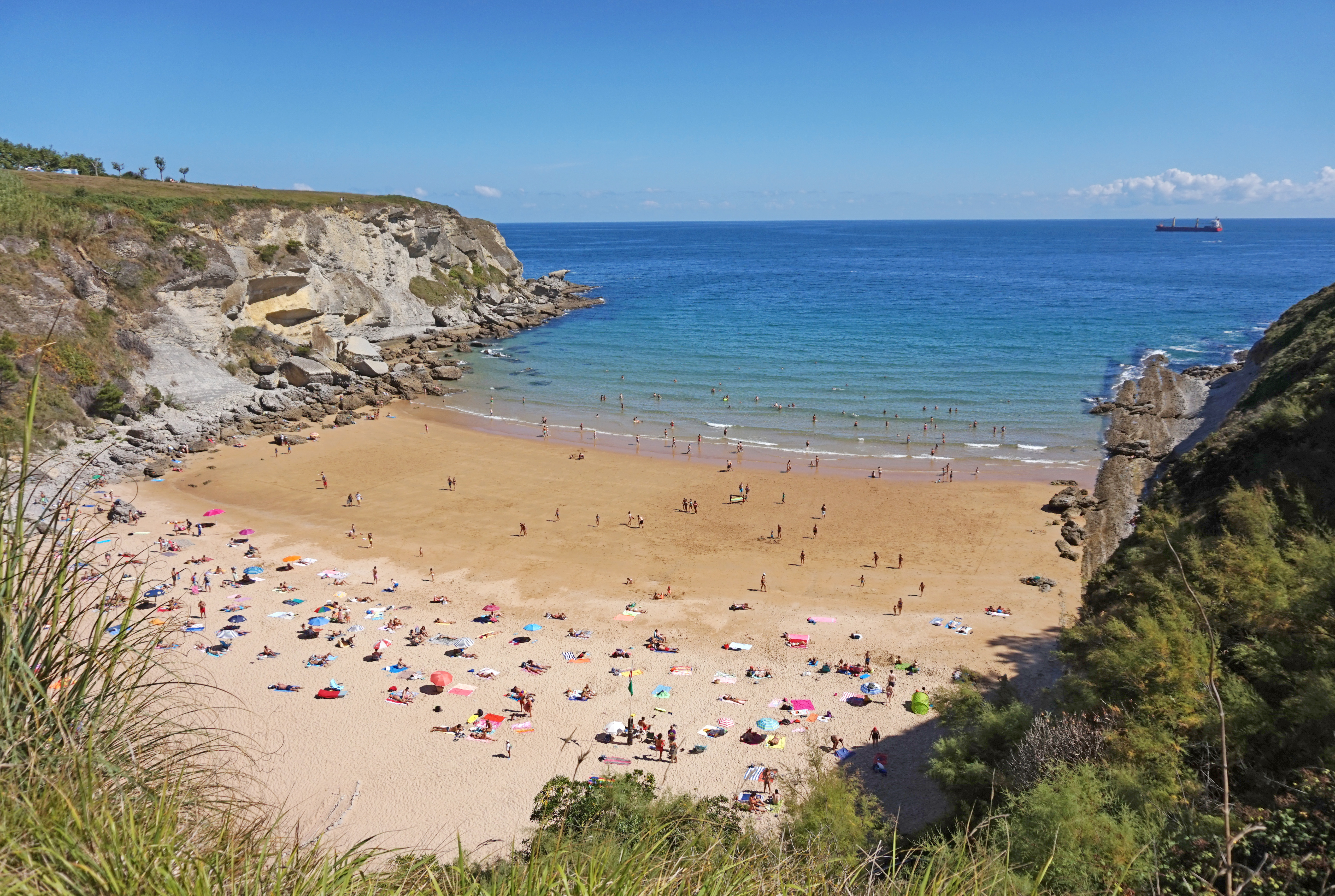 Santander, Spain.This photograph was taken with a Sony ILCE-5000